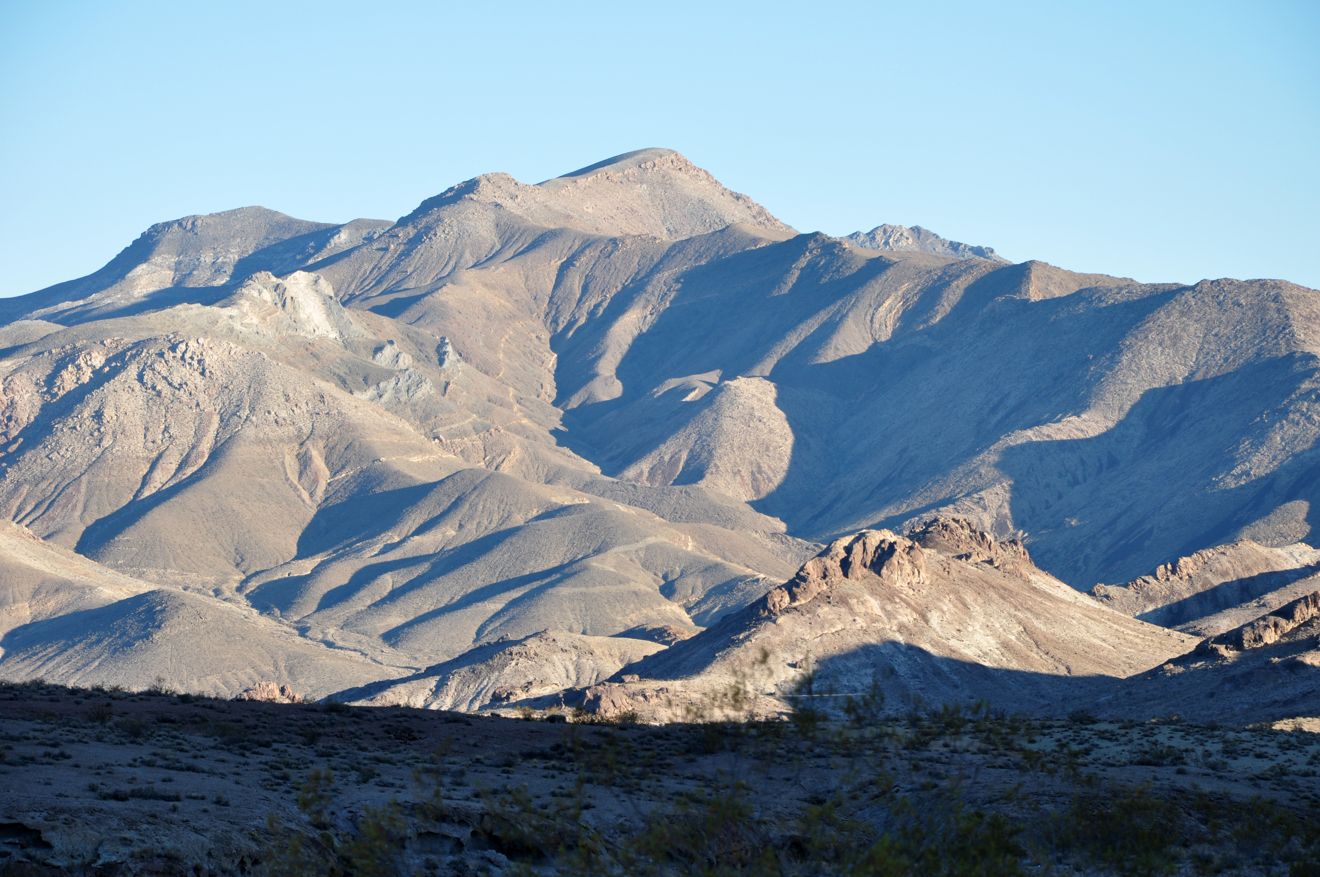 Bare Mountain, (also a mountain range), in southwestern Nevada, United States. View is to the southeast from the Bullfrog Hills west of Beatty.